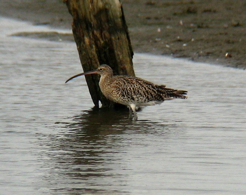 Eurasian Curlew Numenius_arquata, Cresswell Pond, Northumberland, UK